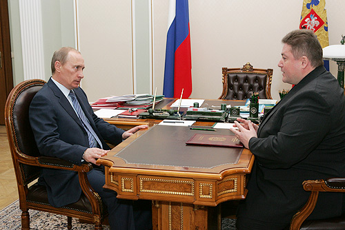 NOVO-OGARYOVO. With Governor of the Kaliningrad Region, Georgy Boos.